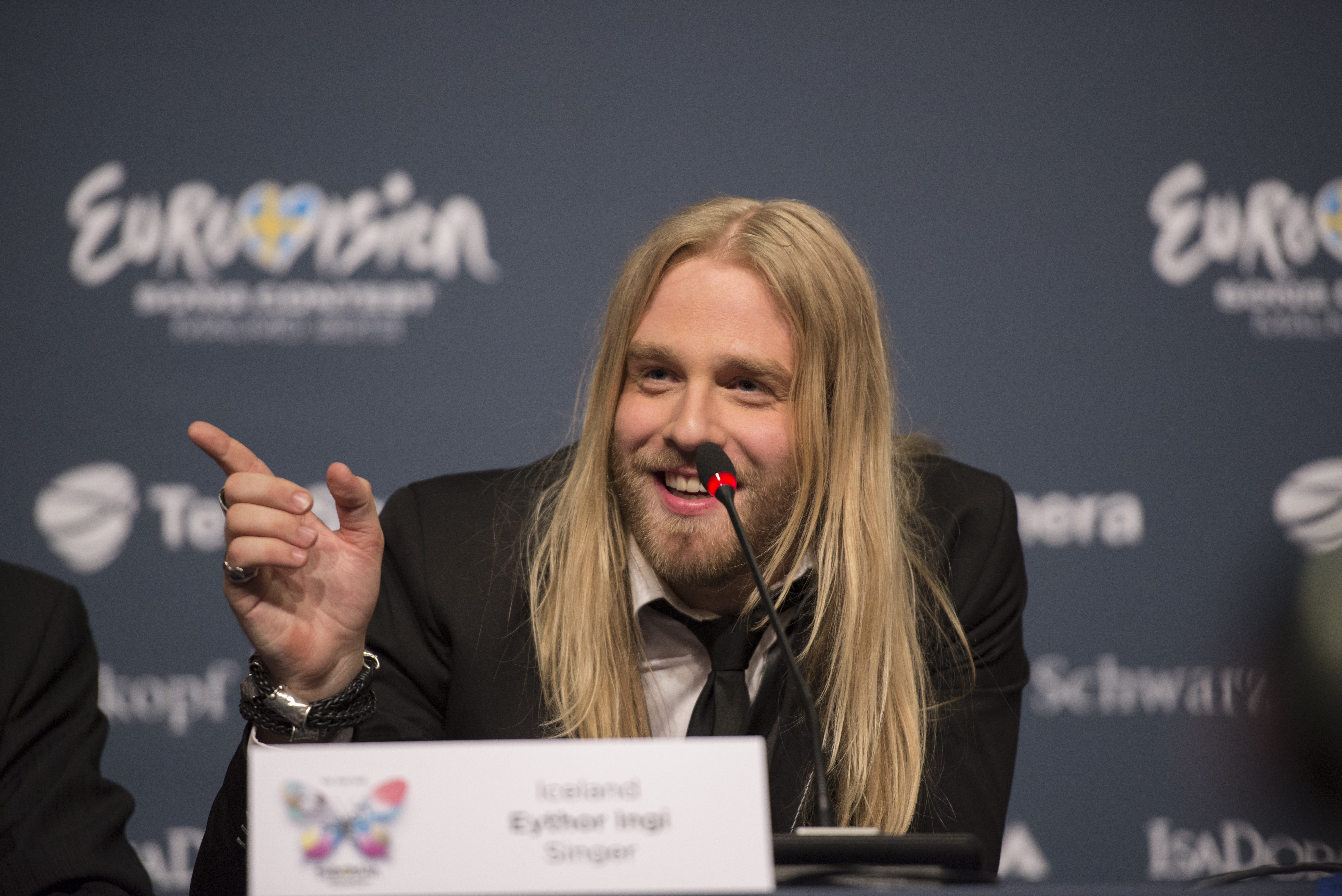 Eythor Ingi at a press conference during the Eurovision Song Contest 2013 in Malmö. (Help translate this text)